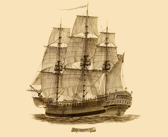 Drawing of the penal transportation ship "Neptune" that operated between England and Australia